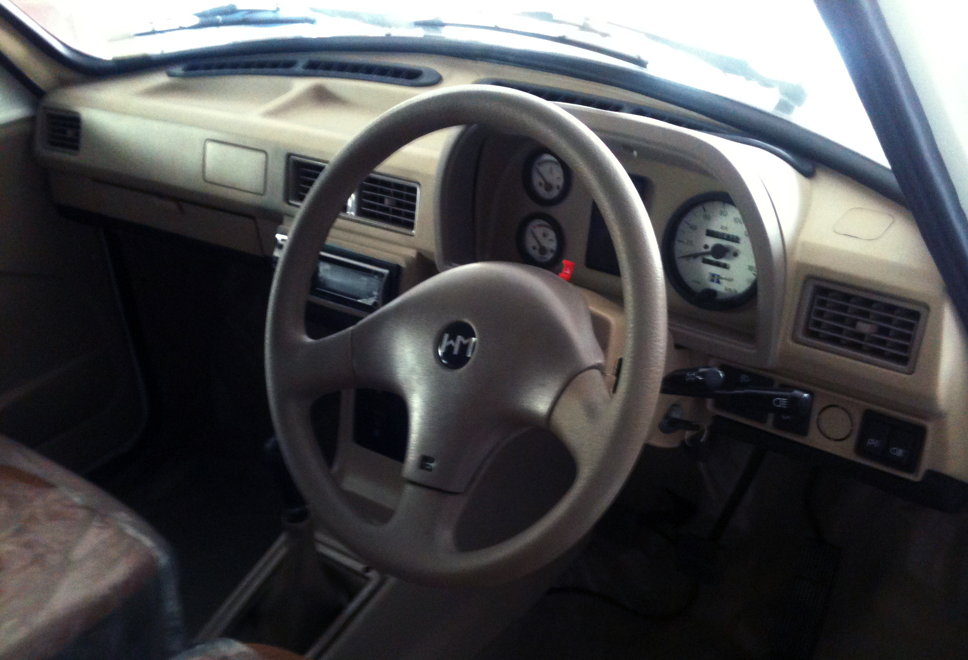 Interior view of HM Ambassador Grand 2013 Model